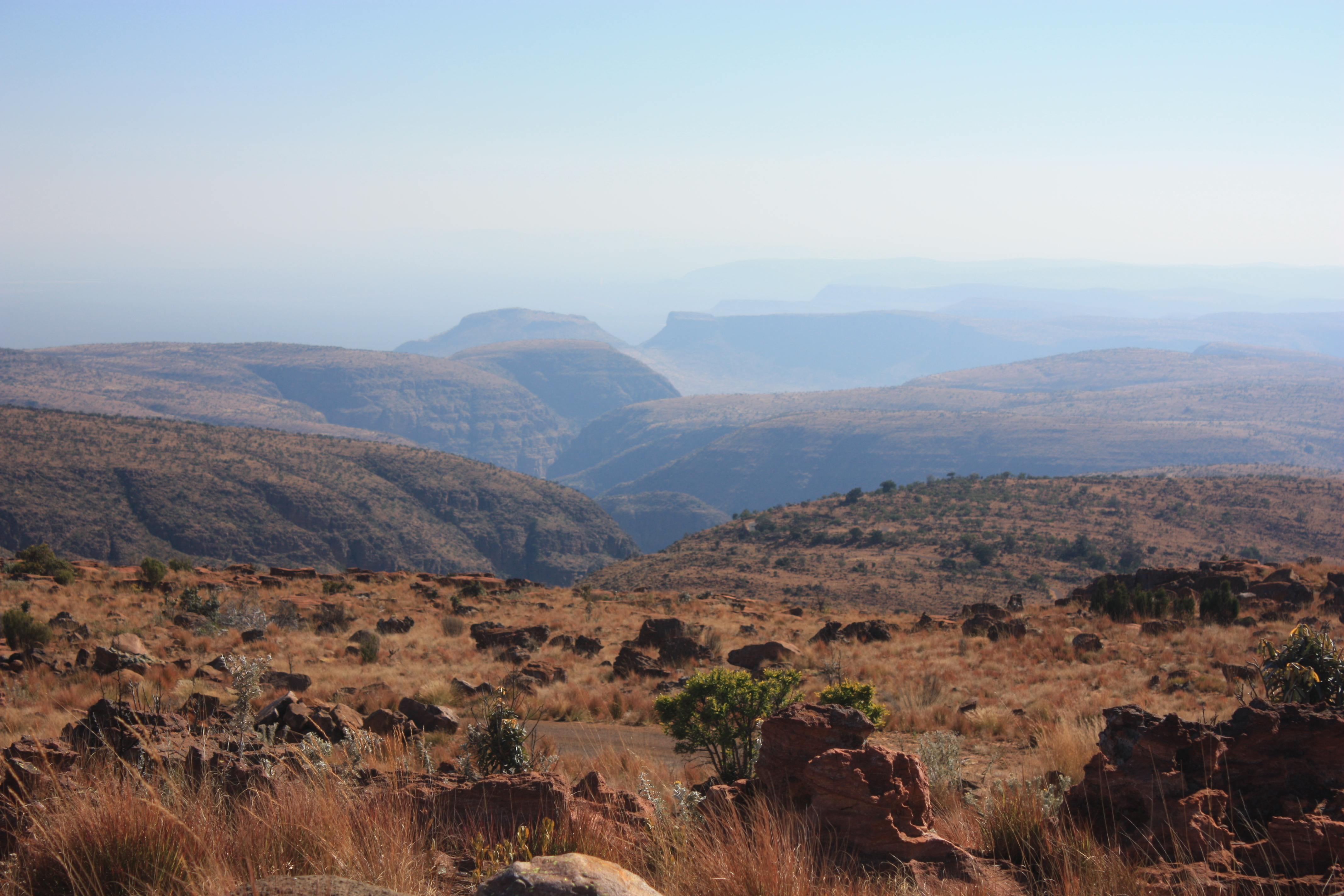 Marakele National Park, Limpopo, South Africa